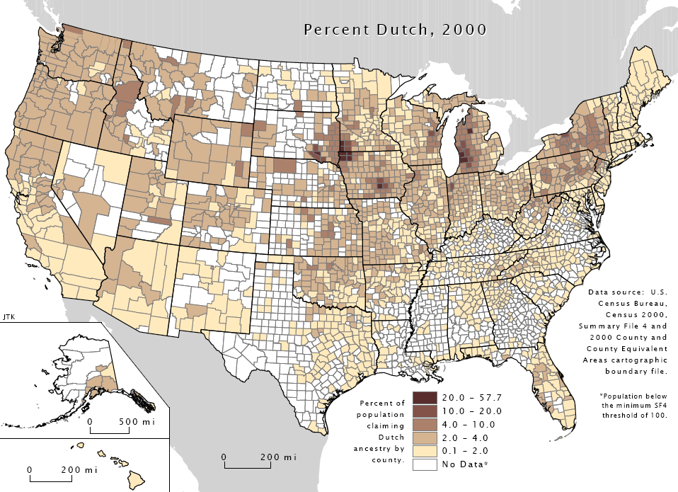 Image as based on the census 2000 by the U.S. Census Bureau. Rex 13:31, 14 May 2007 (UTC)